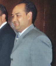 Governor Mark Warner and California Latino Legislative Caucus Members Hector De La Torre, Chair Joe Coto, Jenny Oropeza, Simón Salinas, and Alberto Torrico.